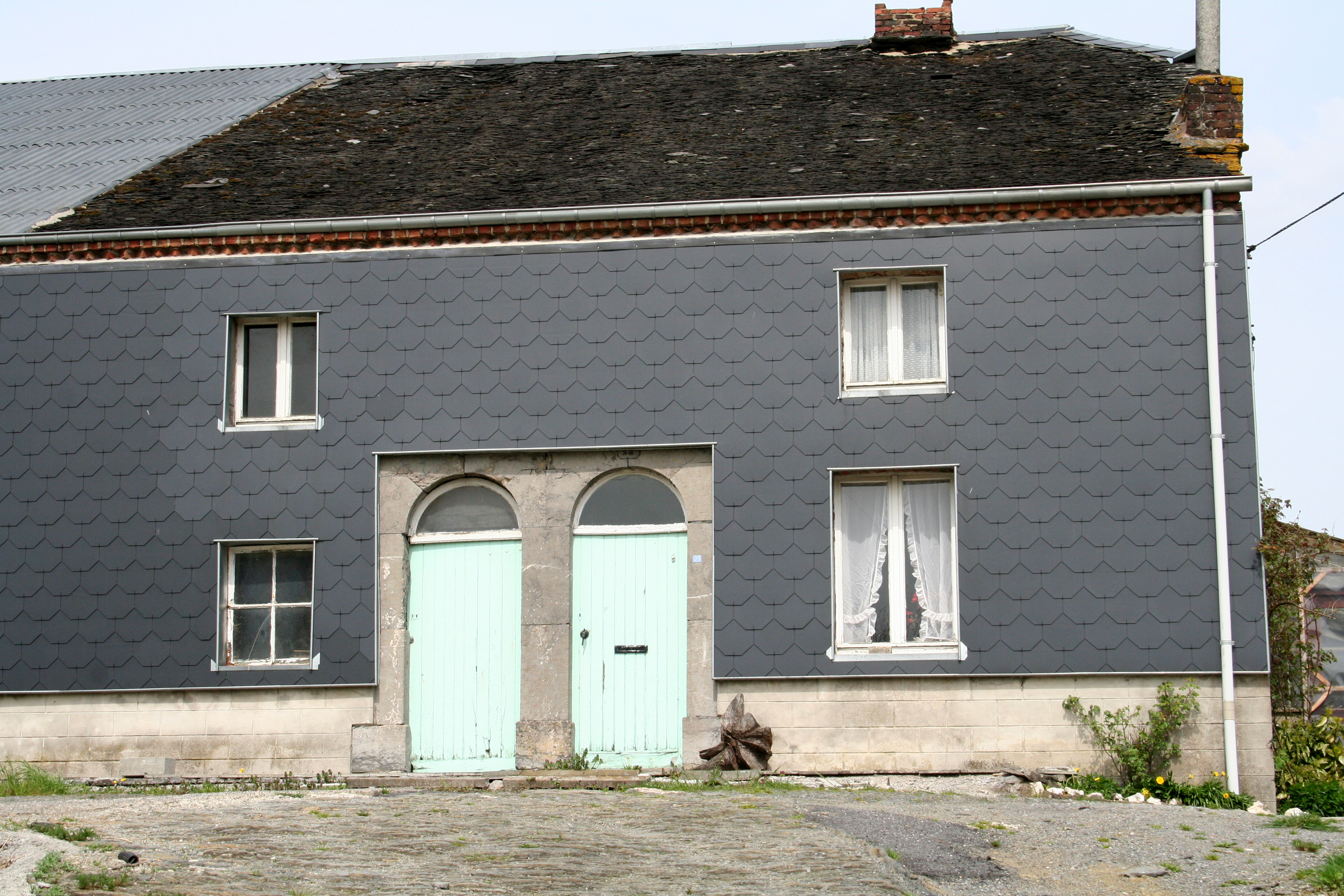 Petit-Fays (Belgium), regional house covered with slates.